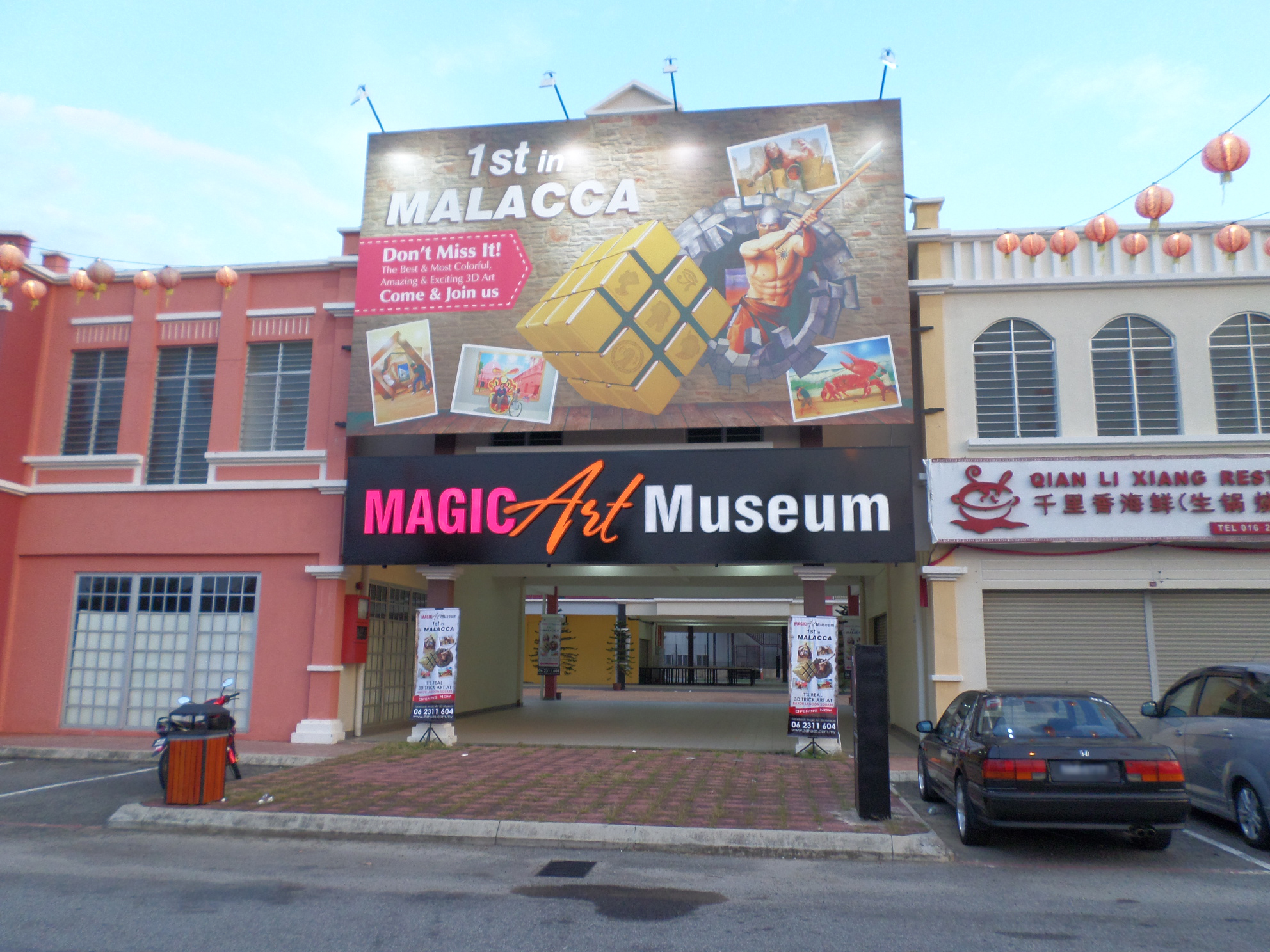 Magic Art 3D Museum, Bukit Katil, Malacca, Malaysia